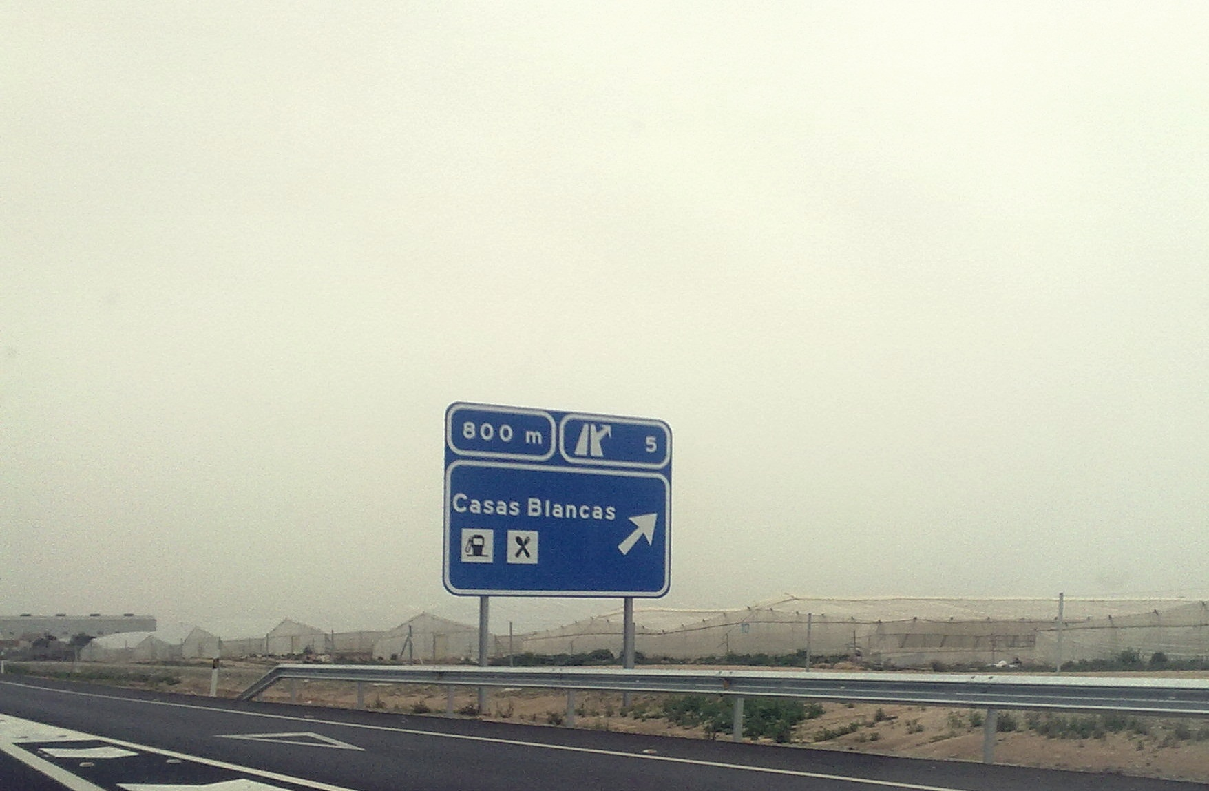 Out nº 5: Casas Blancas